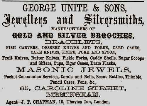 Printed advert for George Unite & Sons, which changed its name to "George Unite Sons & Lyde Ltd" in 1928.